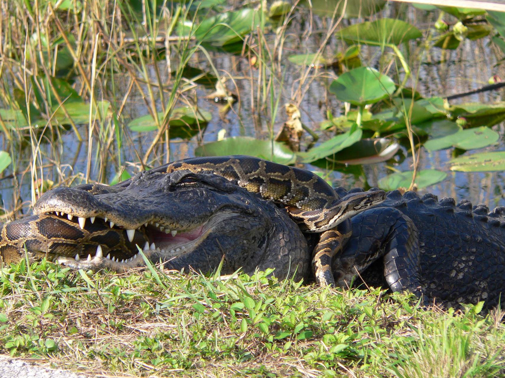 An American alligator and a Burmese python locked in a struggle to prevail in Everglades National Park.